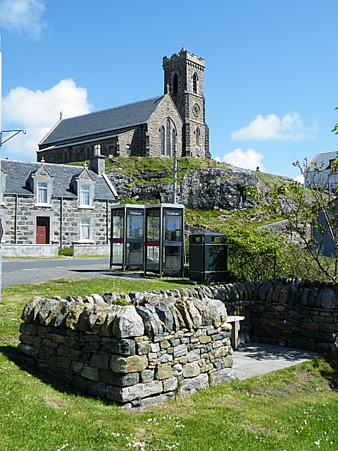 Bàgh a' Chaisteil The church at Castlebay dominates the junction of the road round the island with the road down to the shore, which is to the left of the photographer's location.